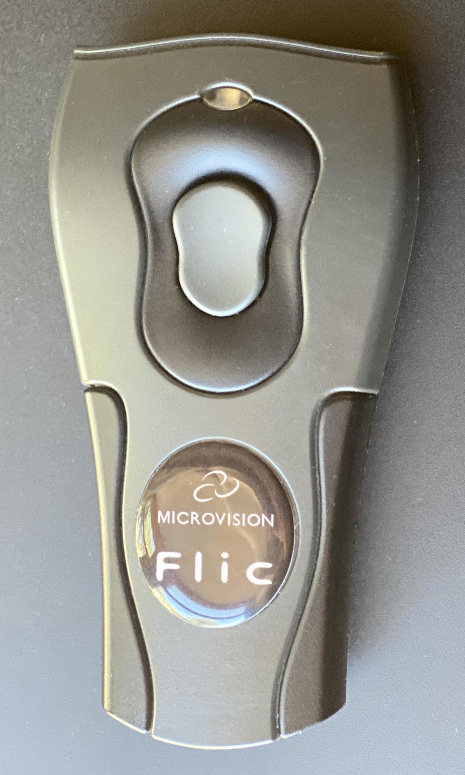 Wireless barcode scanner utilizing a microelectromechanical (MEMS) laser beam scanning module developed by MicroVision in 2004.